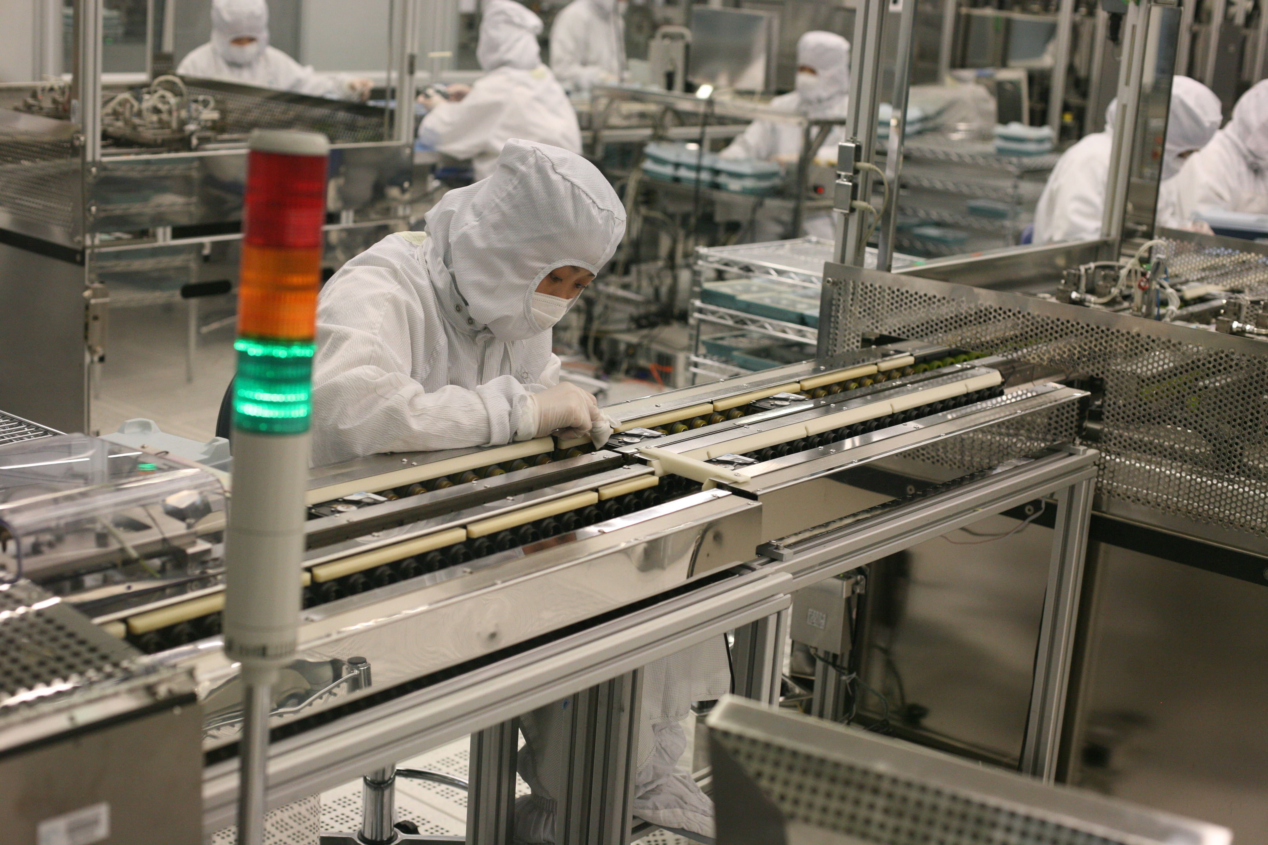 New drives for notebooks roll off of factory lines